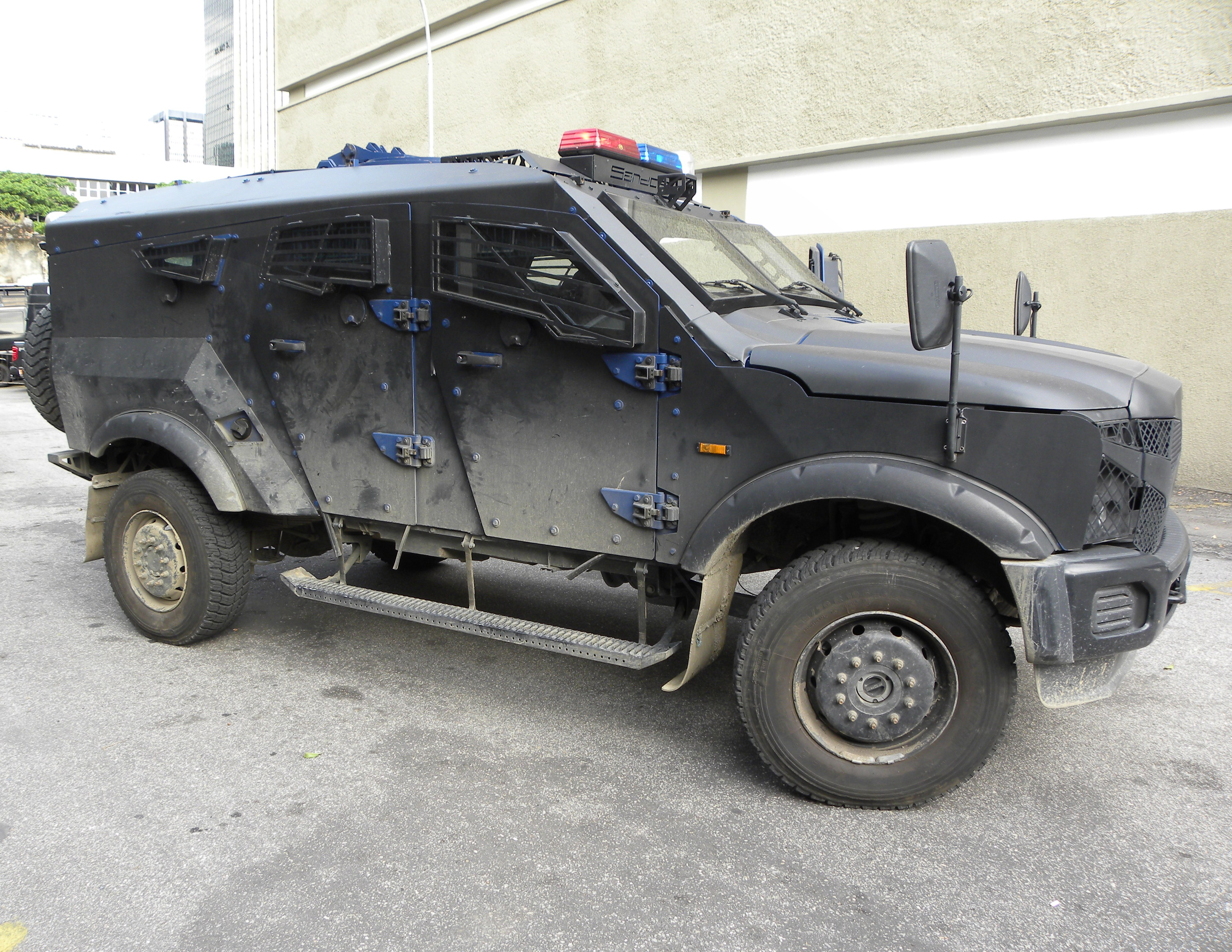 Plasan SandCat demonstrator supplied to the Rio de Janeiro Civil Police